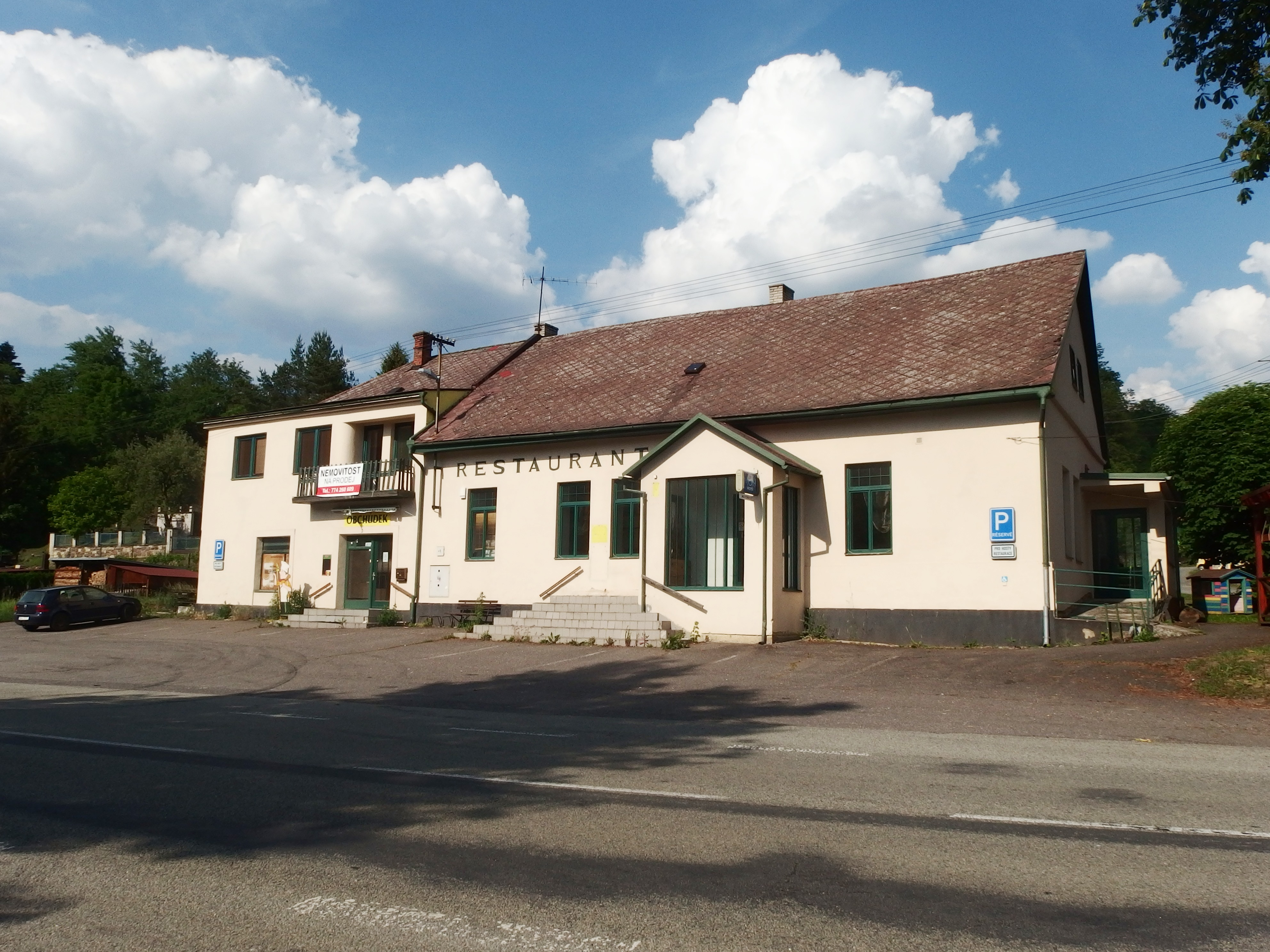 Rozhraní, Svitavy District, Czech Republic.